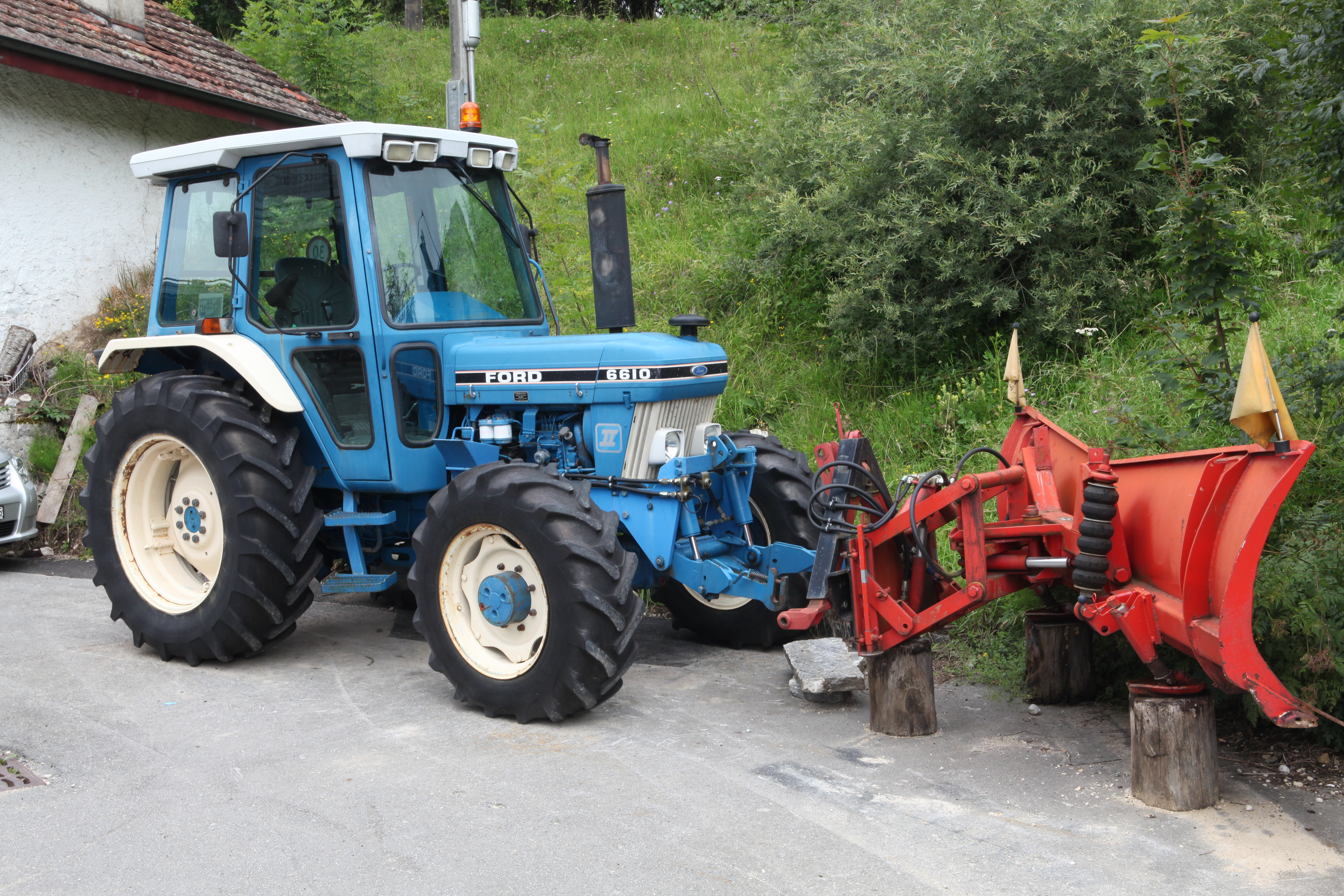 Ford 6610 4WD tractor and a parked snow plough attachment with an A-frame coupling